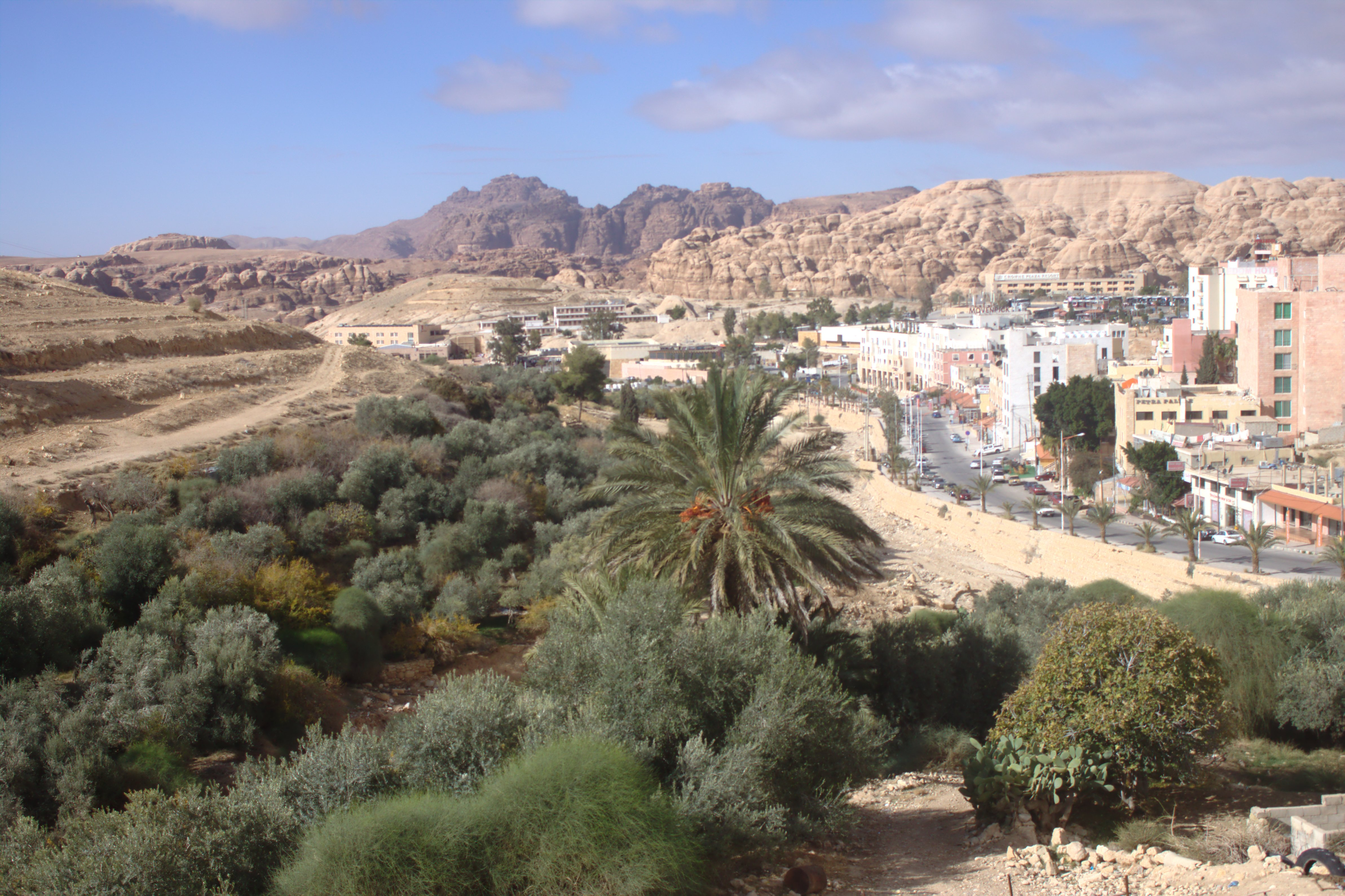 A view of Wadi Musa city